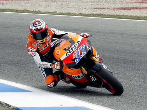 Casey Stoner 2011 Estoril